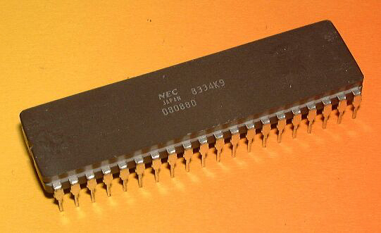 NEC D8088D